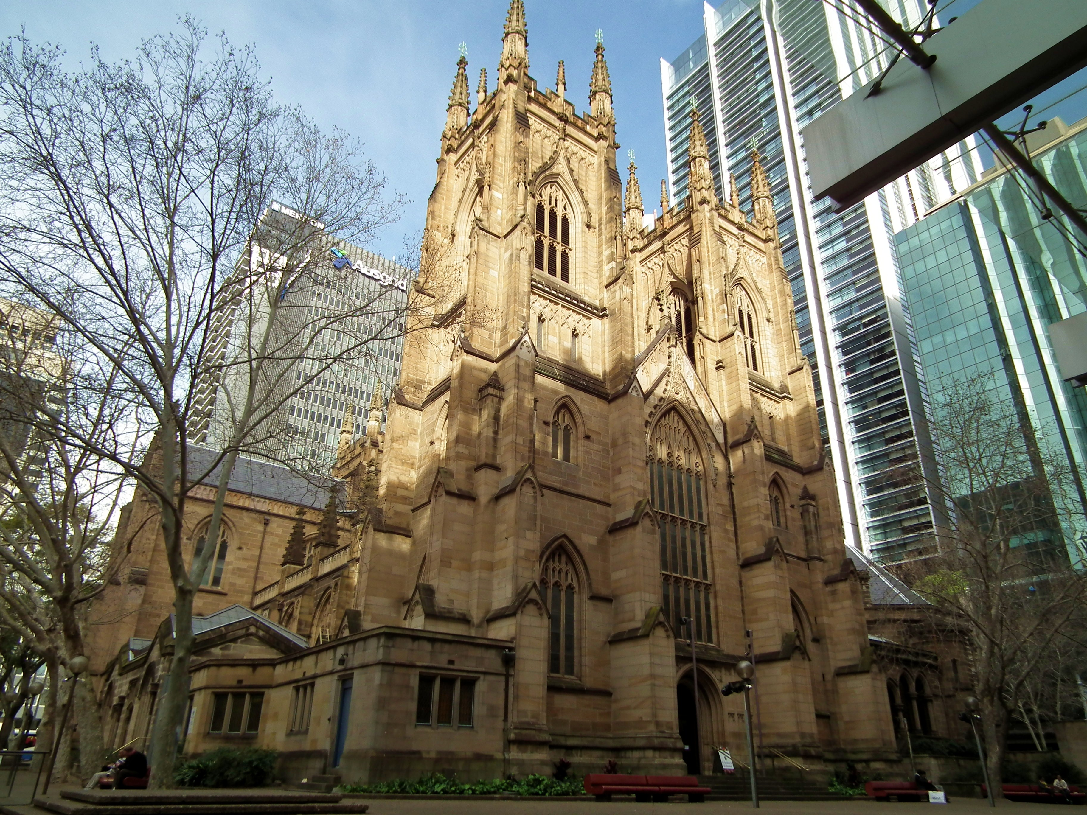 St. Andrew's Anglican Cathedral - Sydney, New South Wales. Consecrated in 1868.